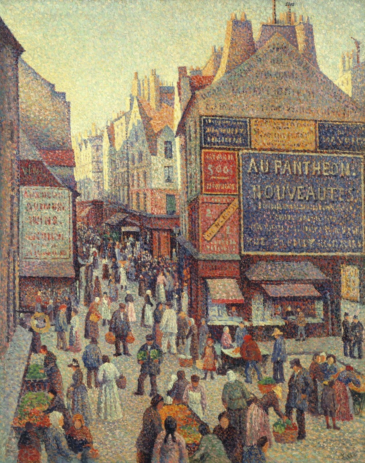 La Rue Mouffetard Luce's view of the rue Mouffetard, a busy street on the Left Bank of Paris, is one of his purest Neo-Impressionist efforts. The colors reflect the movement's reliance on the contrast of warm and cool hues, and his pointillist brushwork adds animation to the bustling market scene. The buildings lock into a sturdy vertical format that satisfies the Neo-Impressionist desire for firm compositions. The working-class setting suits the Neo-Impressionists' interest in contemporary urban life and Luce's deep concern for the laborer. The neighborhood is still a popular market district, offering many of the same views and products as those Luce recorded more than a century ago. Wikipedia Loves Art at the Indianapolis Museum of Art This photo of item # 79.311 at the Indianapolis Museum of Art was contributed under the team name "Opal_Art_Seekers_4" as part of the Wikipedia Loves Art project in February 2009. Indianapolis Museum of Art The original photograph on Flickr was taken by Forever Wiser—please add a comment to the original Flickr page whenever a use has been made on Wikipedia or another project. Project galleries on Flickr: this institution, this team